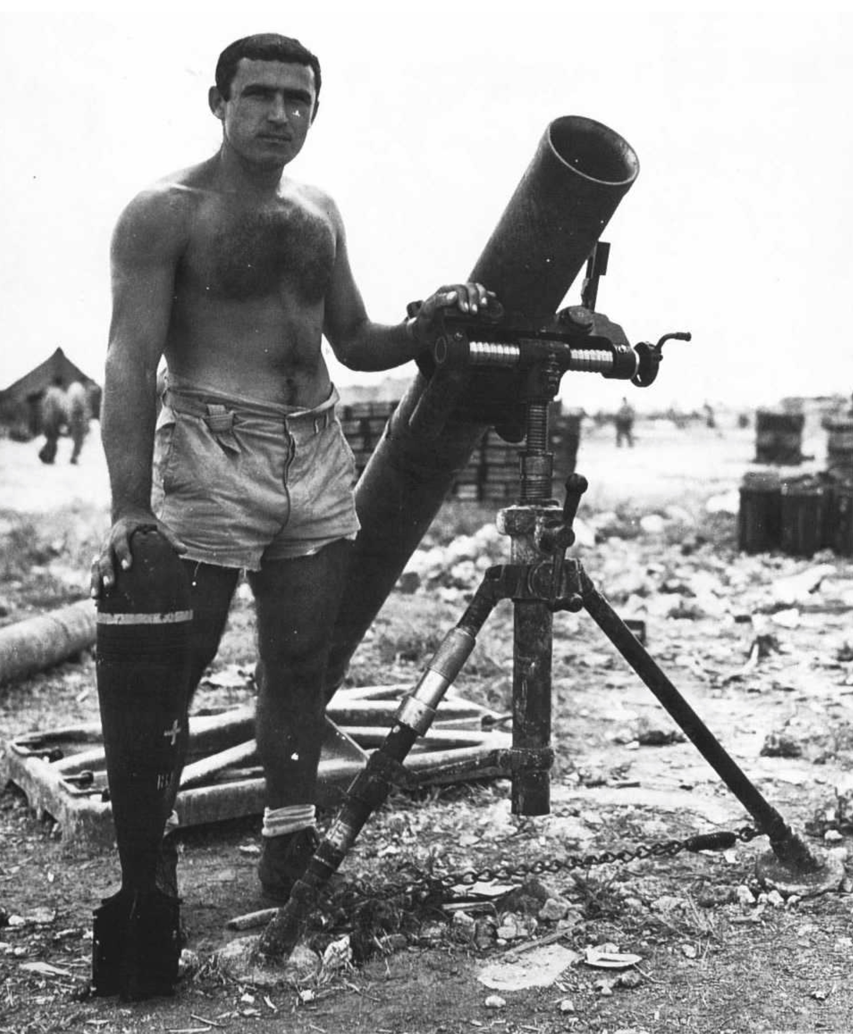 Cpl Peter P. Zacharko stands by a captured Japanese 141mm mortar, which rained shells down on the landing beaches and on the Marines as they proceeded inland.